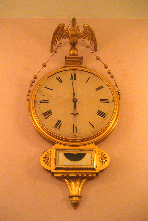 A c. 1820 gallery clock by Simon Willard, Mary Norton Hall, Old South Church in Boston